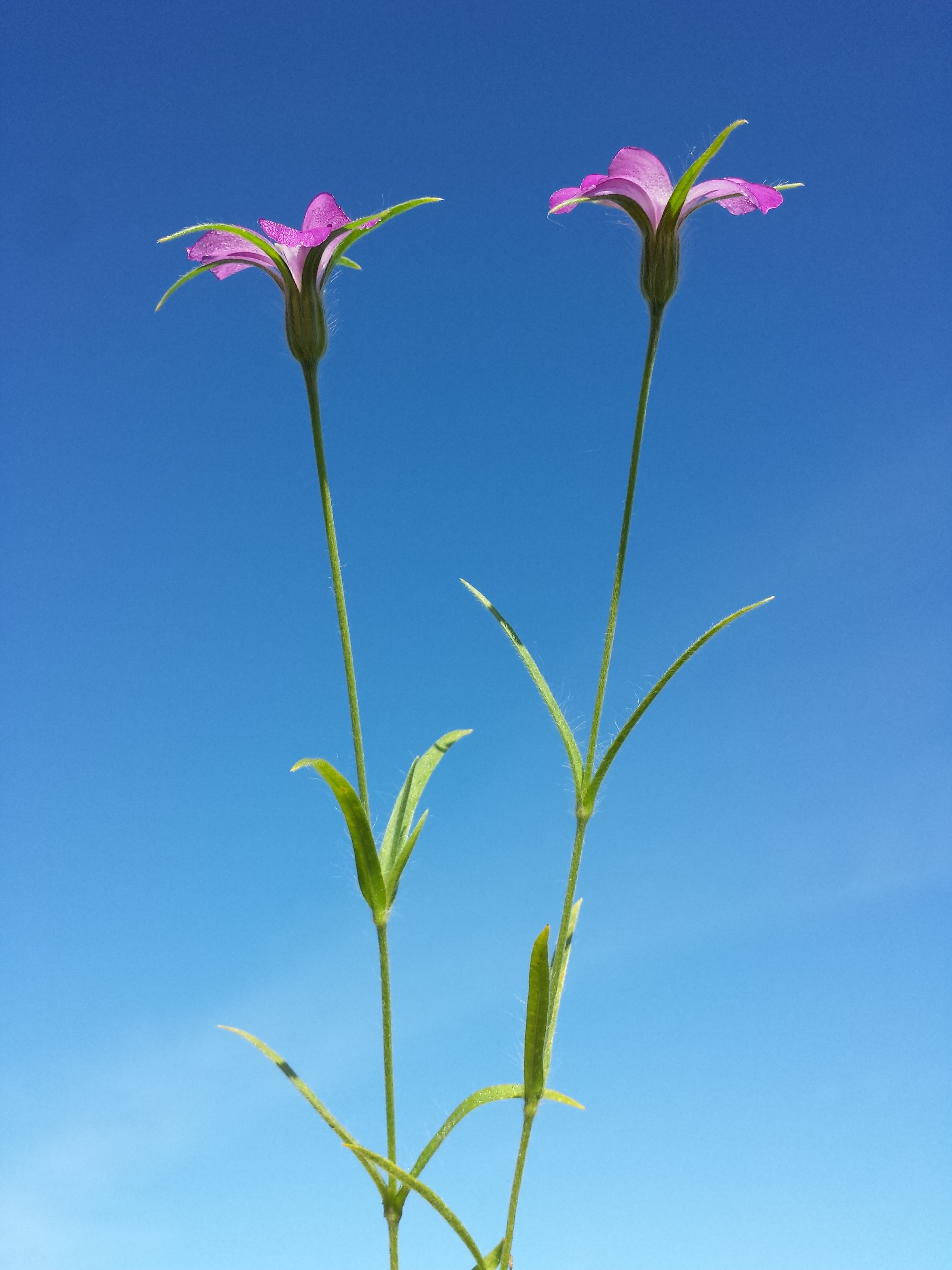 Habitus Taxonym: Agrostemma githago ss Fischer et al. EfÖLS 2008 ISBN 978-3-85474-187-9 Location: pond near Michelstetten, district Mistelbach, Lower Austria - ca. 250 m a.s.l. Habitat: ruderal area